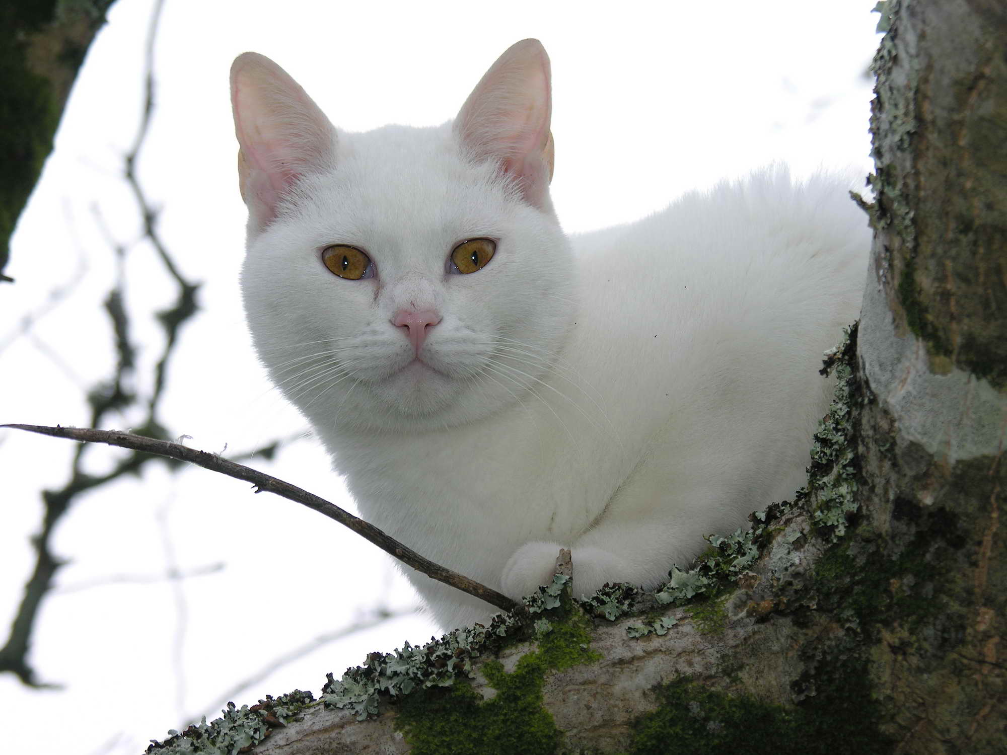 Cat on a tree.